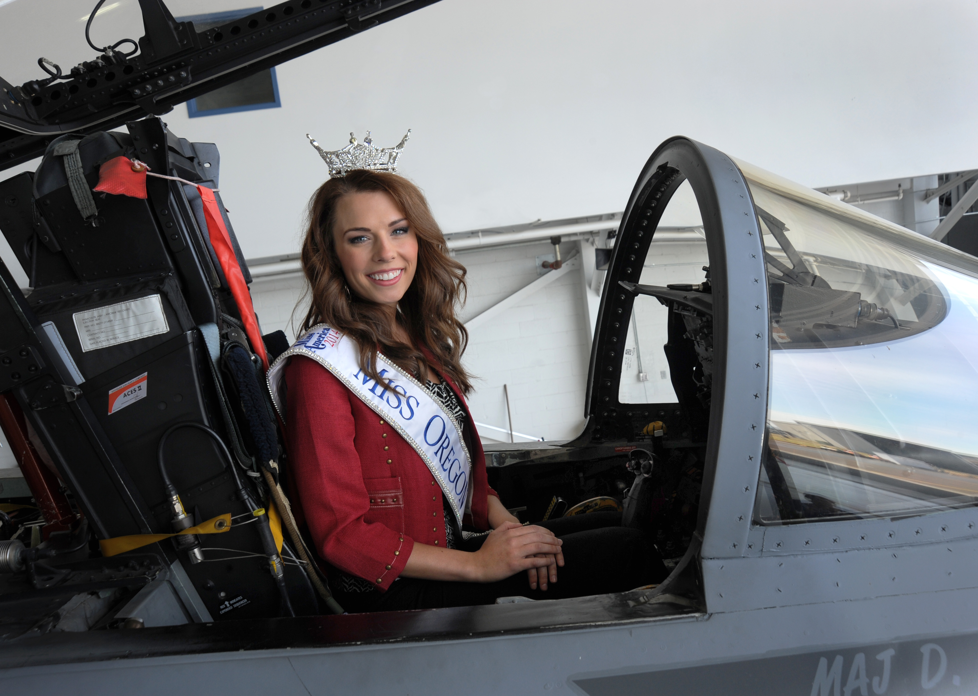 Rebecca Anderson, Miss Oregon 2014 sits inside an F-15 Eagle assigned to the 142nd Fighter Wing, at the Portland Air National Guard Base, Ore., Aug. 21, 2014. Anderson and others took a tour of the Air Base during a quarterly tour hosted by the 142nd Fighter Wing.